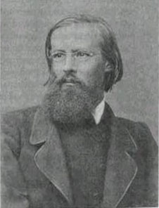 Apollon Maykov